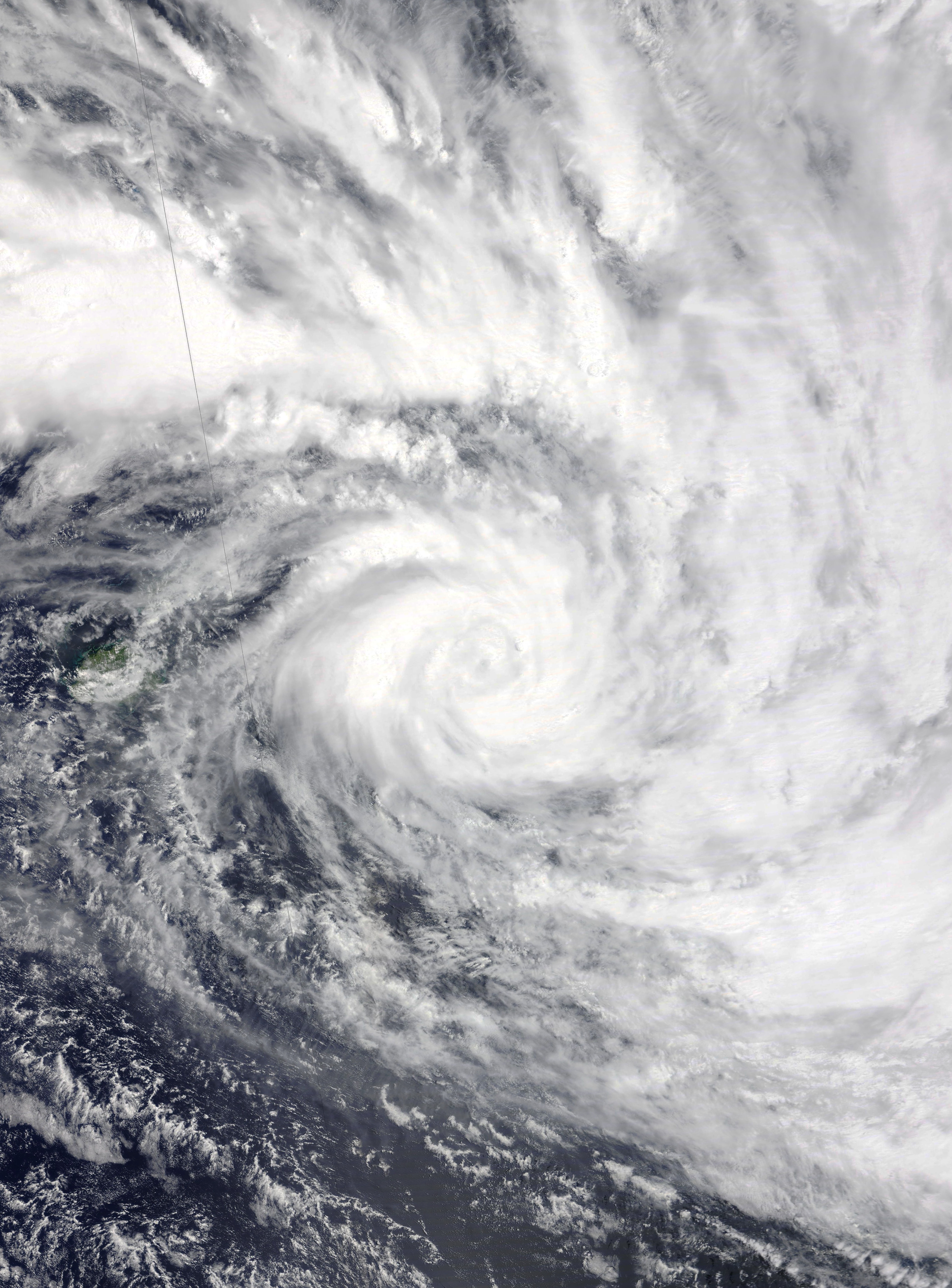 Severe Tropical Cyclone Tino on January 17, 2020